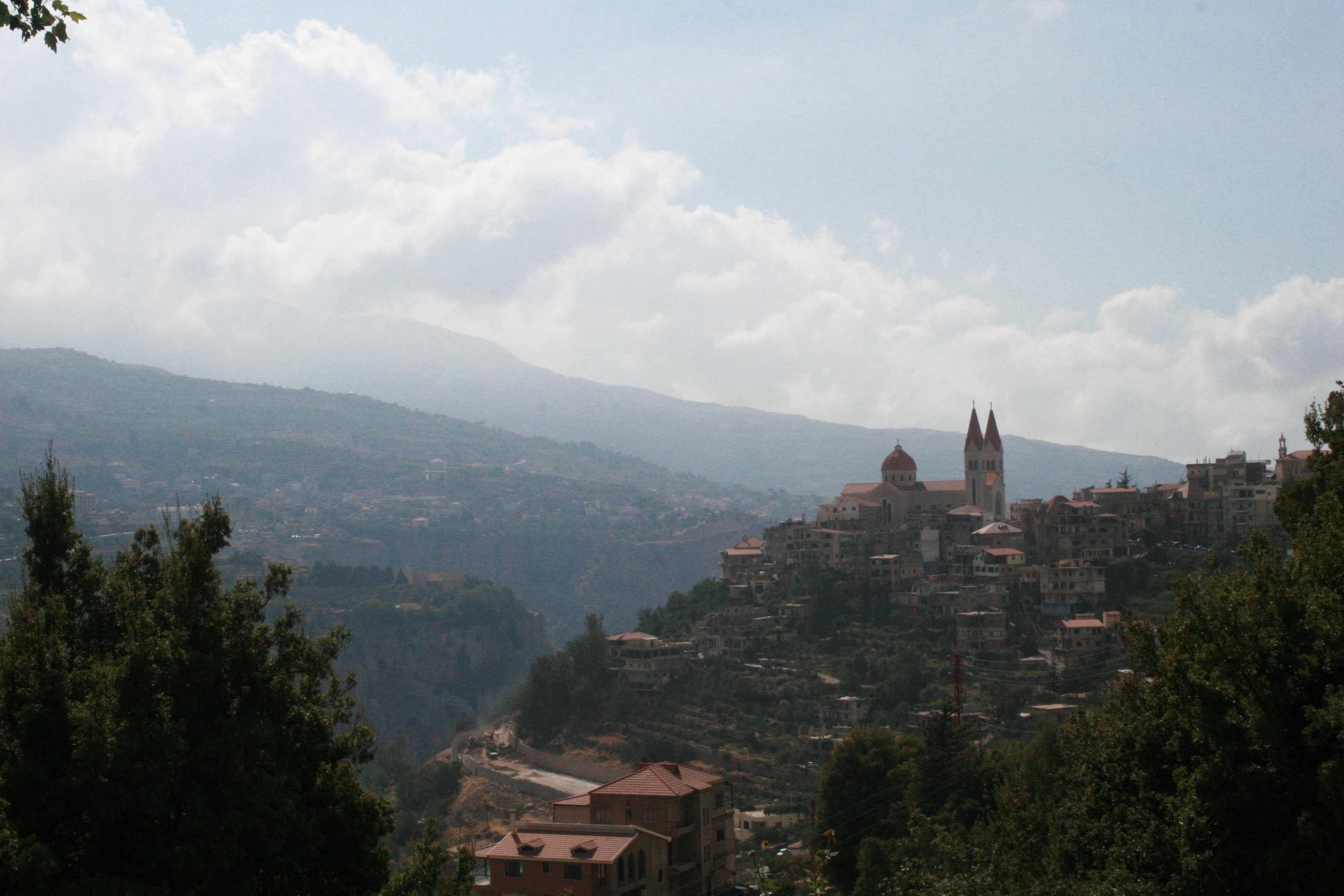 Bsharri, Lebanon / Autumn